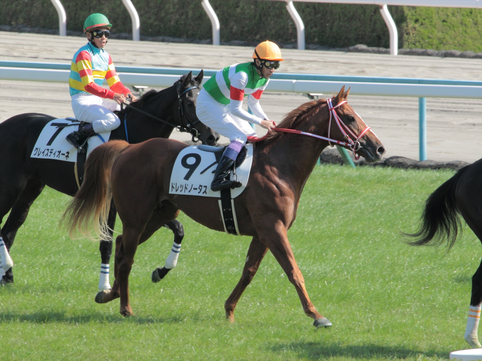 Dreadnoughtus (Racehorse of Japan). Basa Jawa: ドレッドノータス（新馬戦ゴール後）。投稿者が撮影および編集